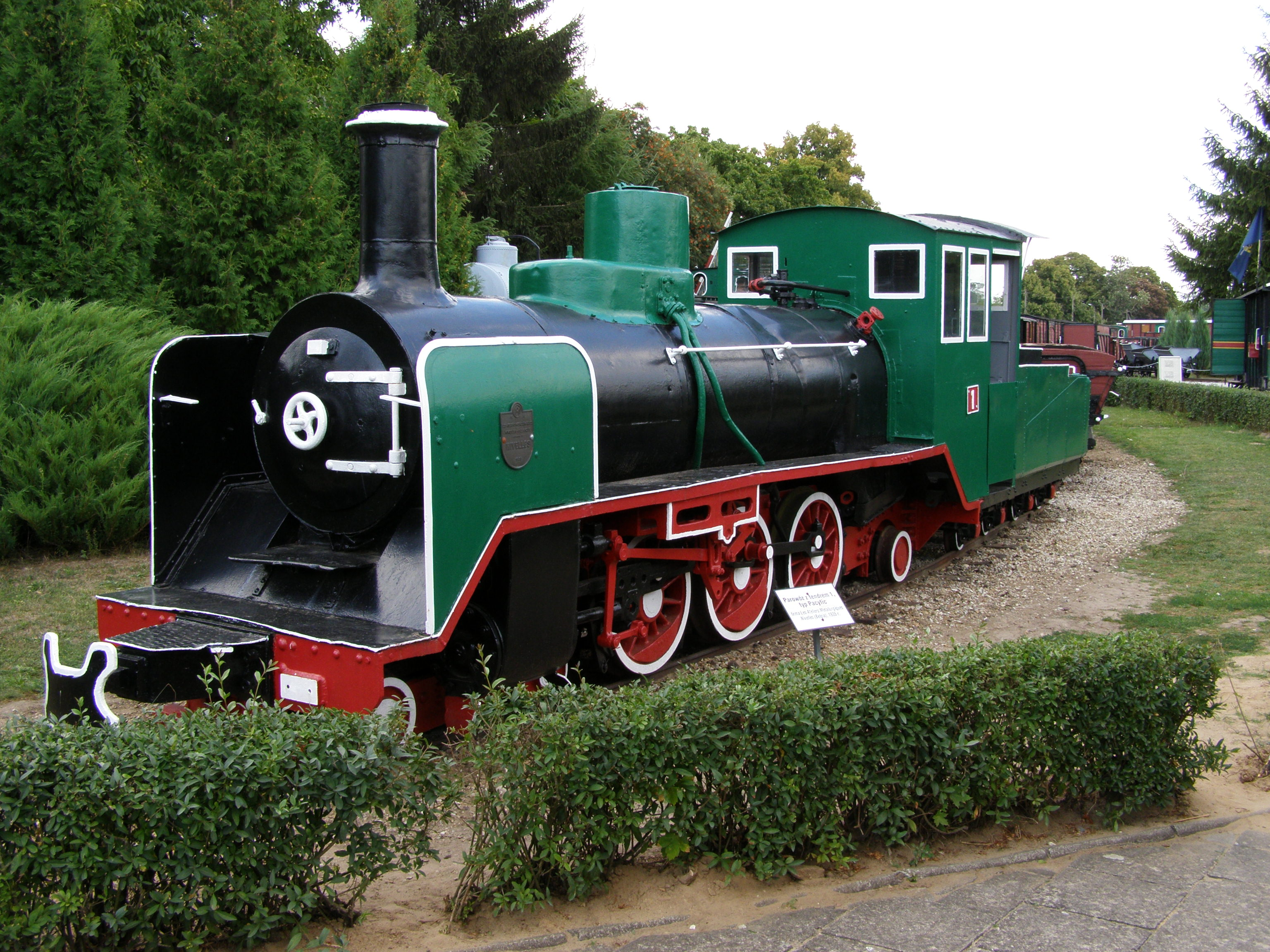 Steam locomotive type Pacyfic produced in 1935 at Les Ateliers Métallurgiques, Nivelles (Belgium), Narrow Gauge Railway Museum in Wenecja (Poland)